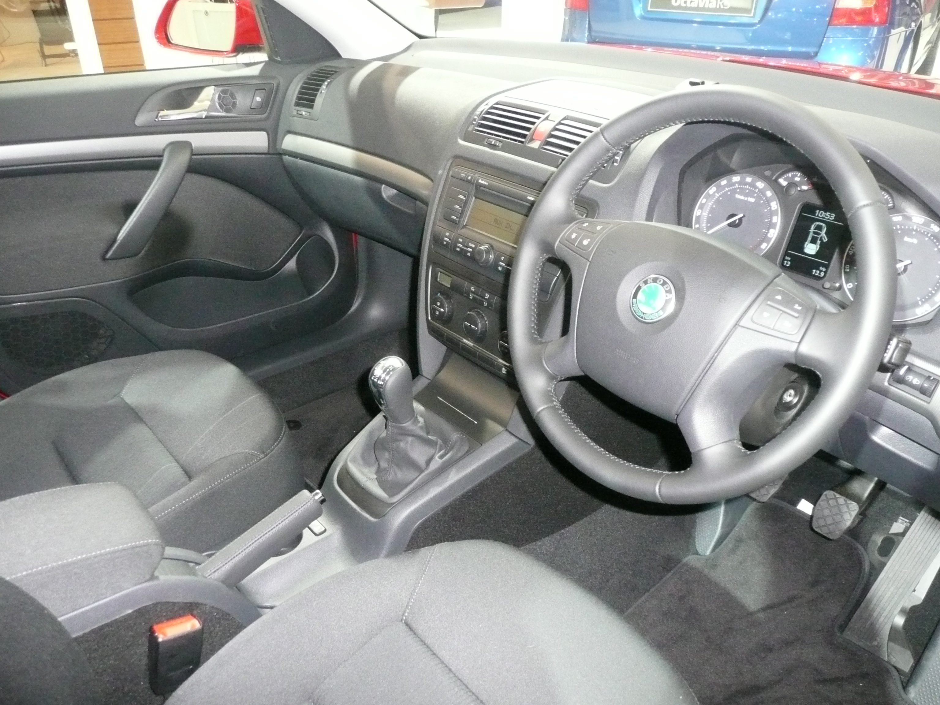 2007–2008 Škoda Octavia (1Z) Elegance sedan. Photographed at the 2008 Australian International Motor Show, Sydney, New South Wales, Australia.